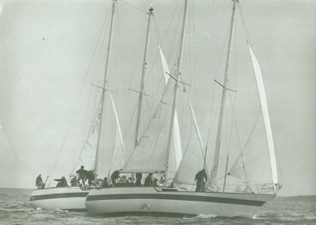 s/y EDDA and s/y MINNA on 1983 Moonsund Regatta in Estonian waters in Moonsund Archipelago